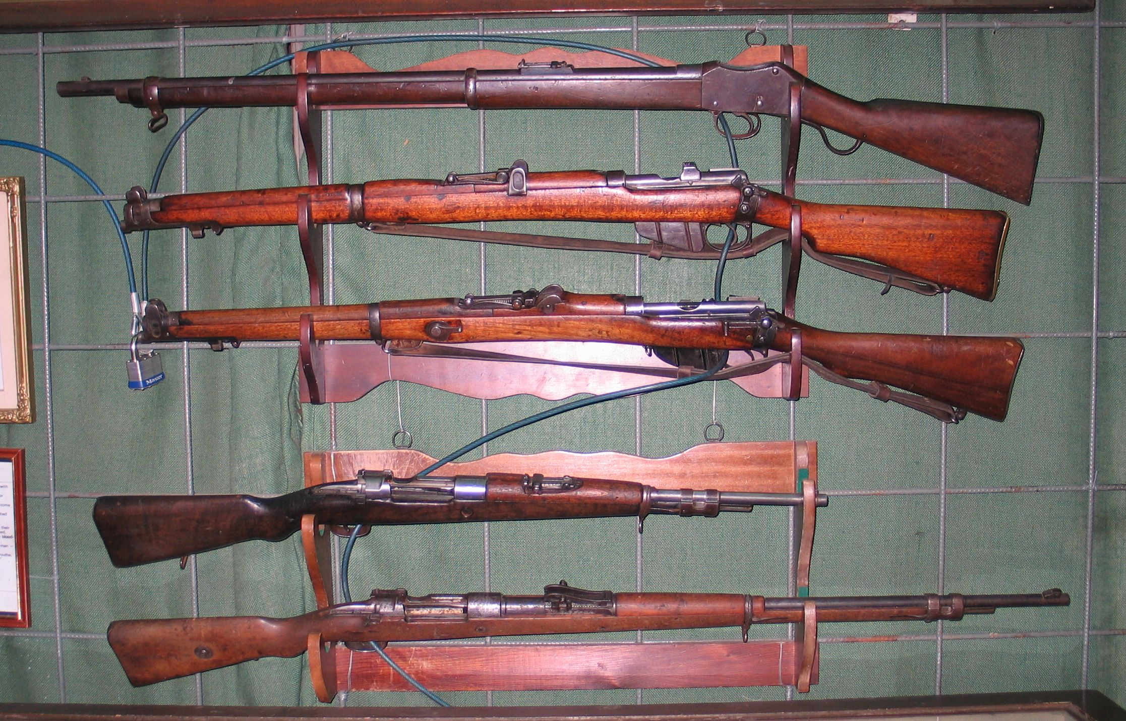 Rifles in Light Horse and Field Artillery Museum, Nar Nar Goon, Victoria, Australia.